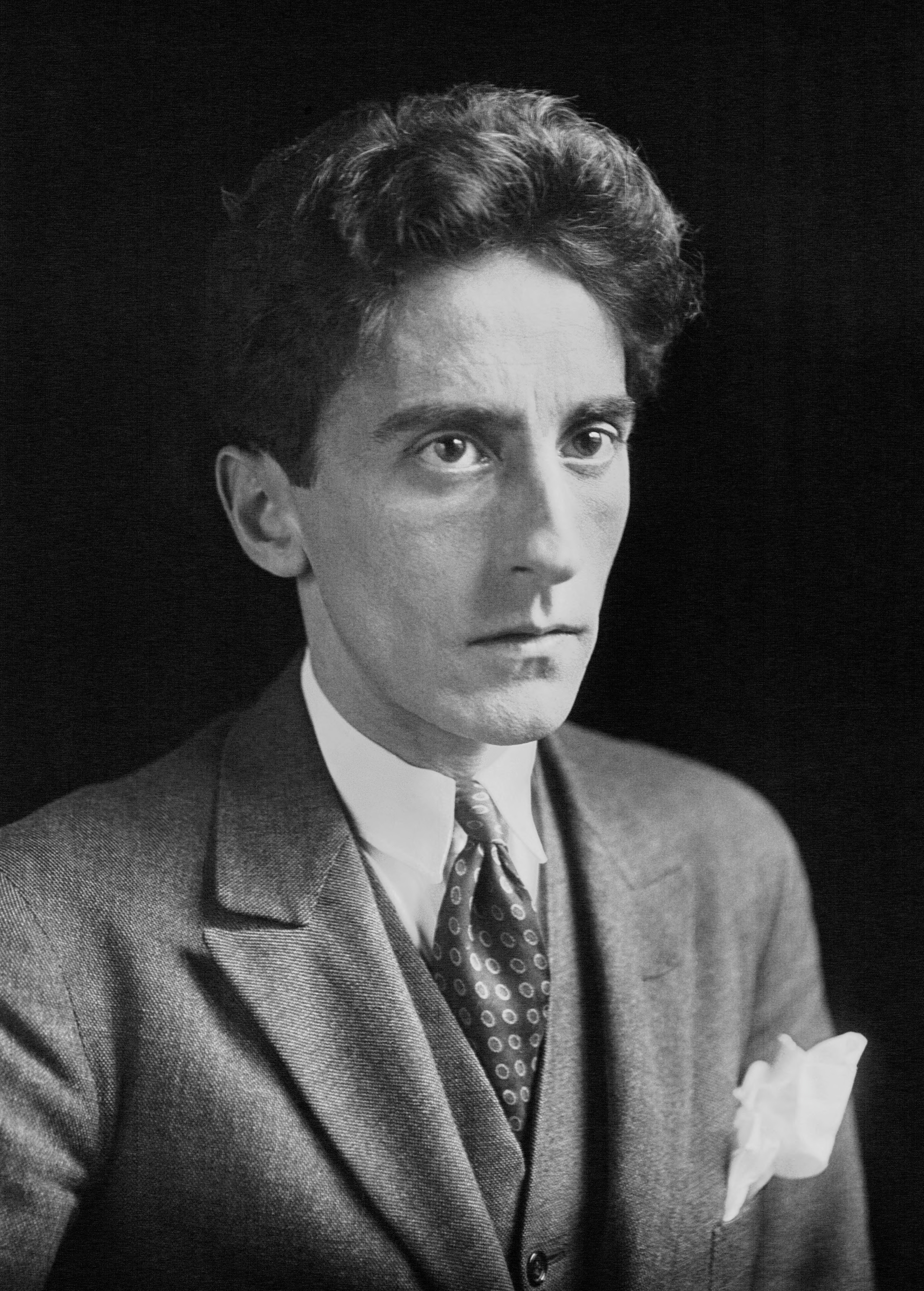 Jean Cocteau (1889-1963), French poet, novelist, dramatist, designer, playwright, artist and filmmaker. Picture taken in 1923: glass negative, restored and cropped print.